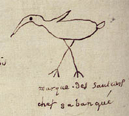 Pictographic signature of Ouabangué, chief of the Saulteurs, on the Great Peace of Montreal (1701)